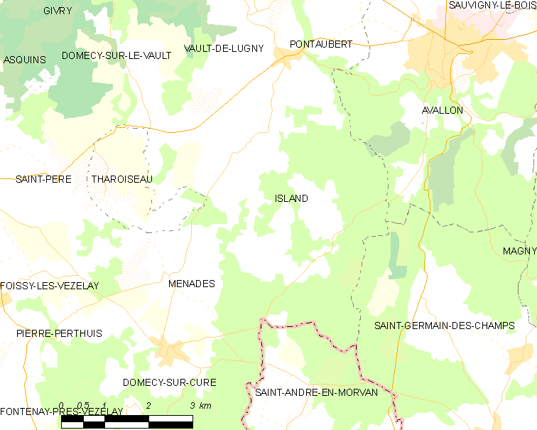 Map of French municipality Island